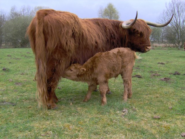 A red highlander cow with calf